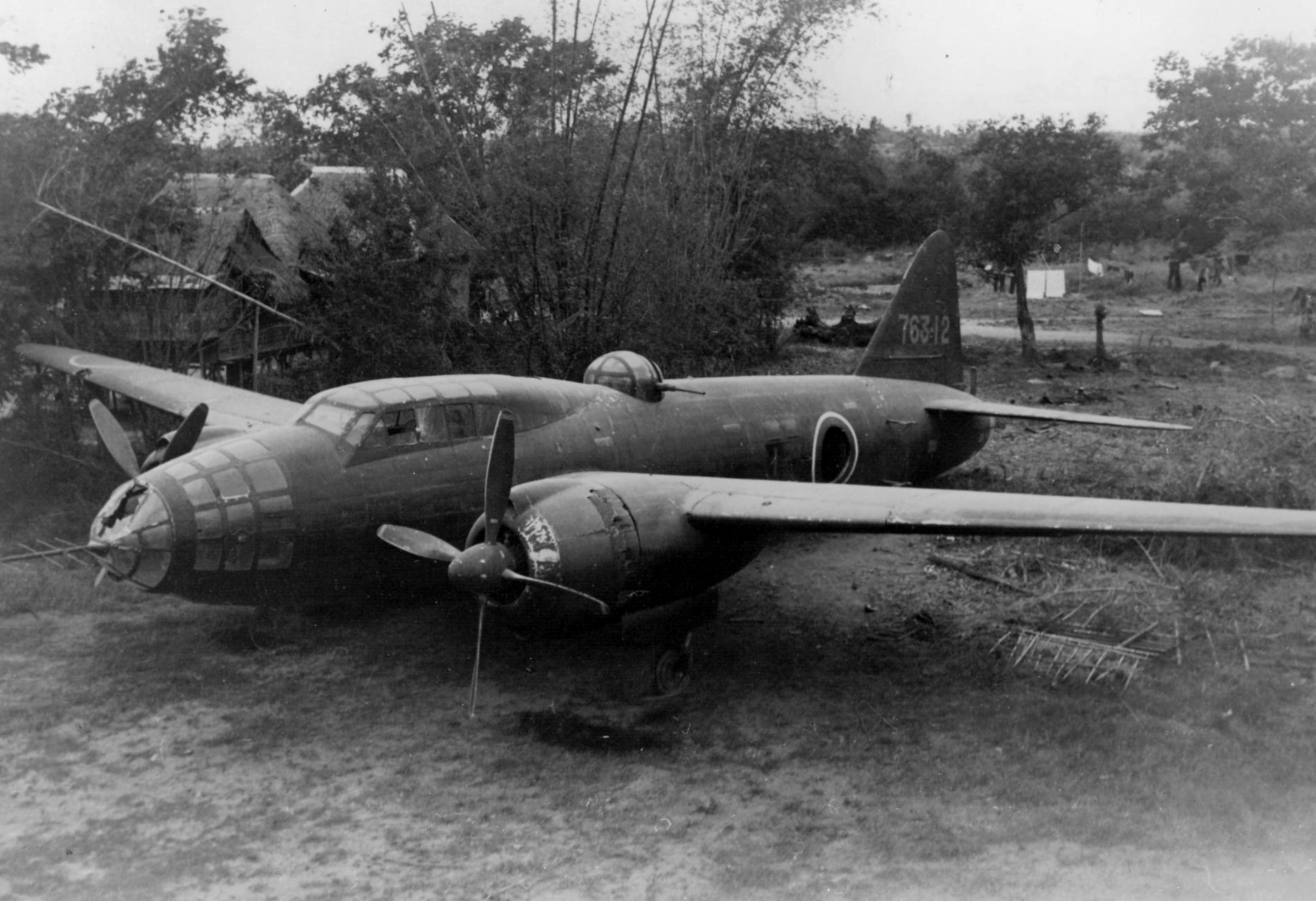 An Imperial Japanese Navy Mitsubishi G4M "Betty" bomber (probably a G4M2a Model 24 Ko/Otsu) pictured somewhere in the Southwest Pacific. Note the radar antenna.